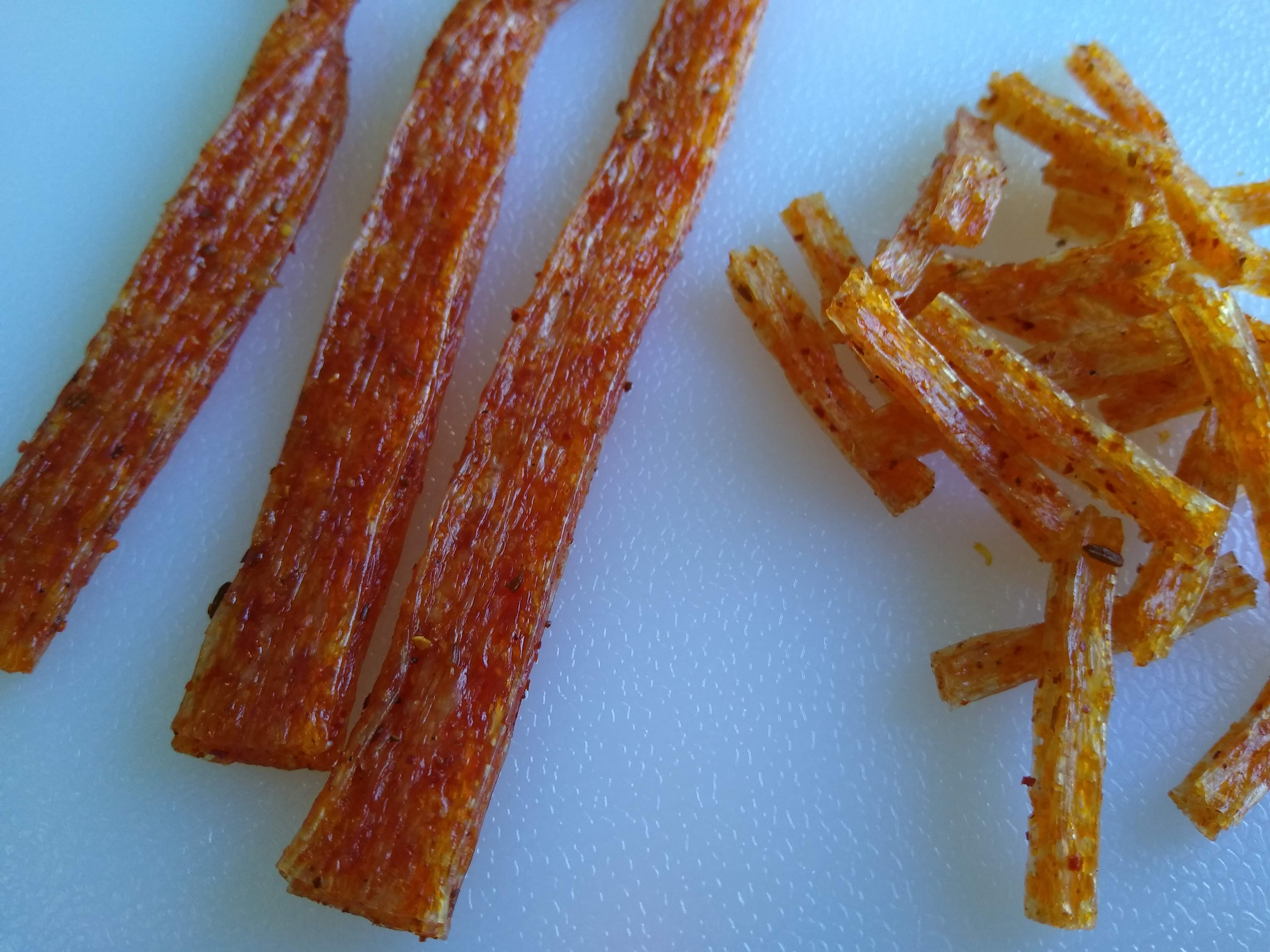 Làtiáo (辣条), a spicy wheat-based Chinese snack food. Made by Wèilóng (卫龙).